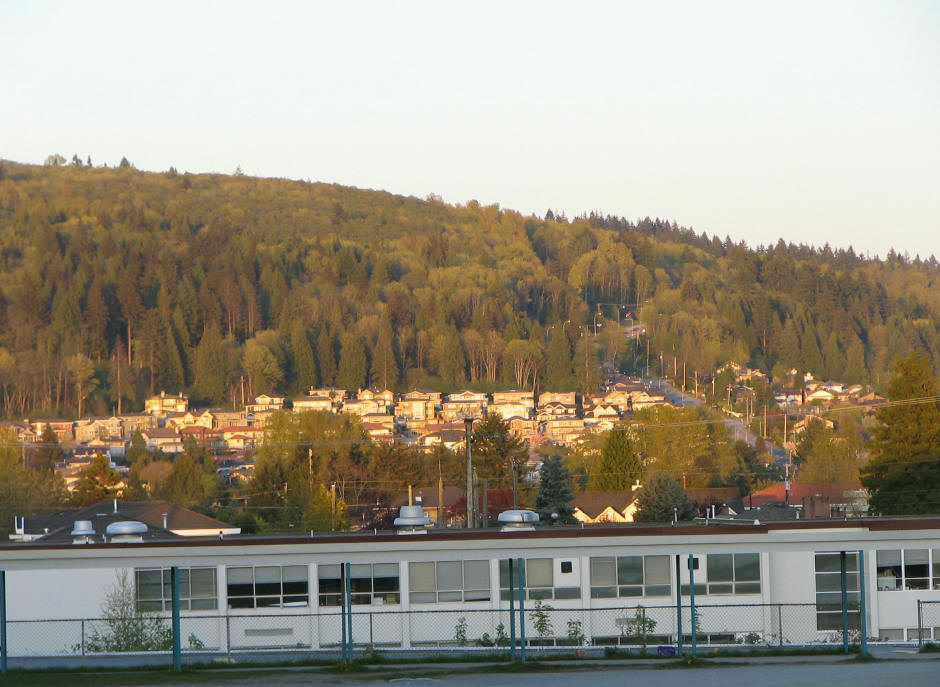 This image was taken by me, Flying Penguin of Pacific Spirit Photography in Burnaby, British Columbia, Canada